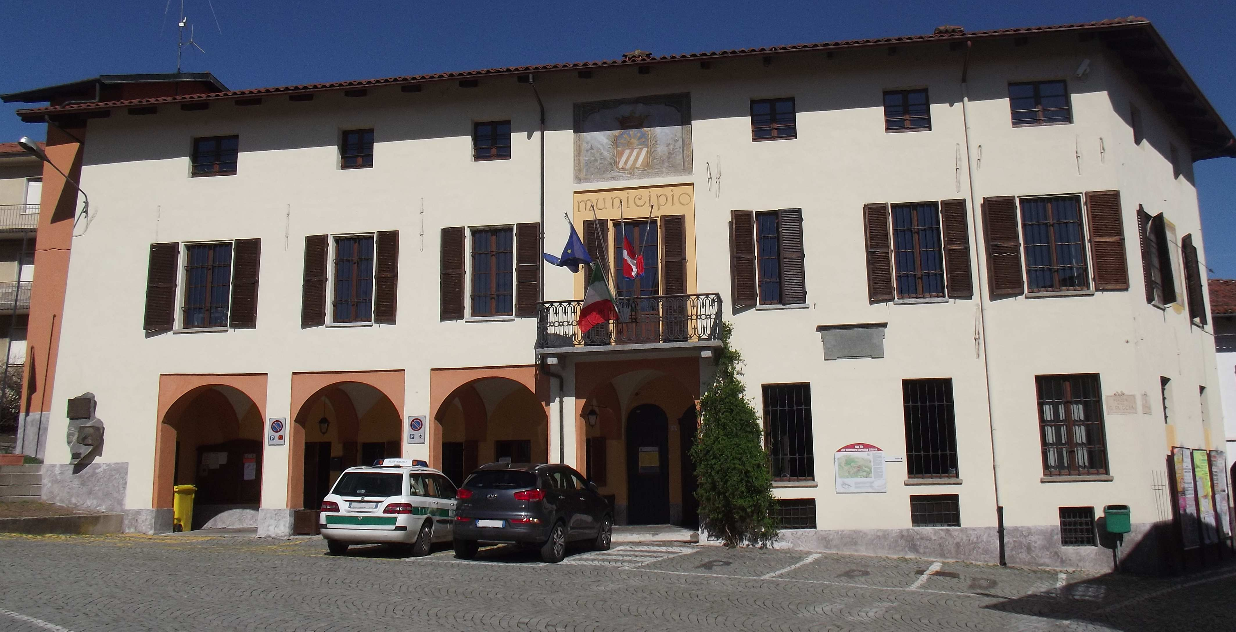 Romano Canavese (TO, Italy): town hall